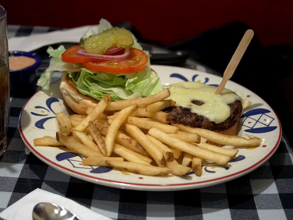 Hamburger and fries served in an American dinner. Photographer: Jon Sullivan